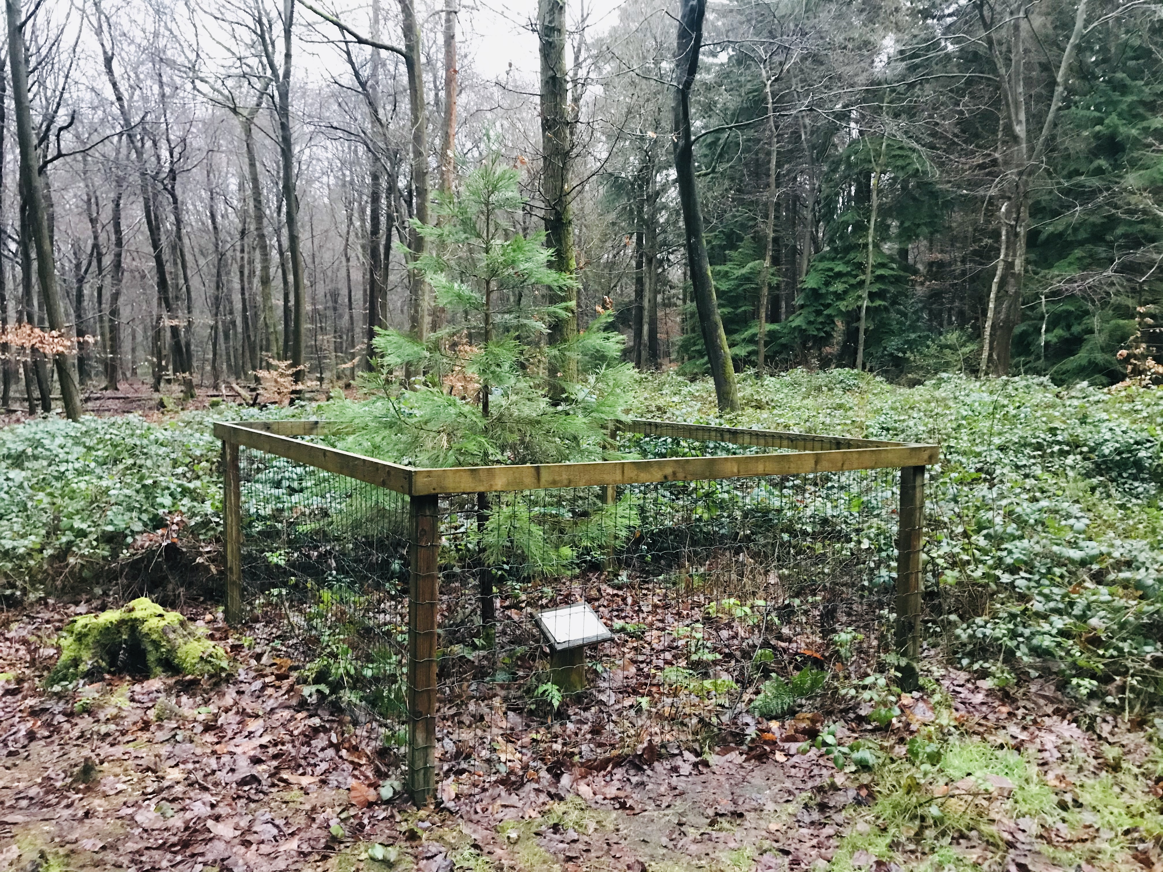 A Wellingtonia (Sequoiadendron giganteum) sapling, planted in Hockeridge Woods near Berkhamsted in 2015 by Mary Wellesley to commemorate the 200th anniversary of the Battle of Waterloo. Mary Wellesley, great-great-granddaughter of the Duke of Wellington, donated the woodland to the Royal Forestry Society in 1986. The accompanying plaque